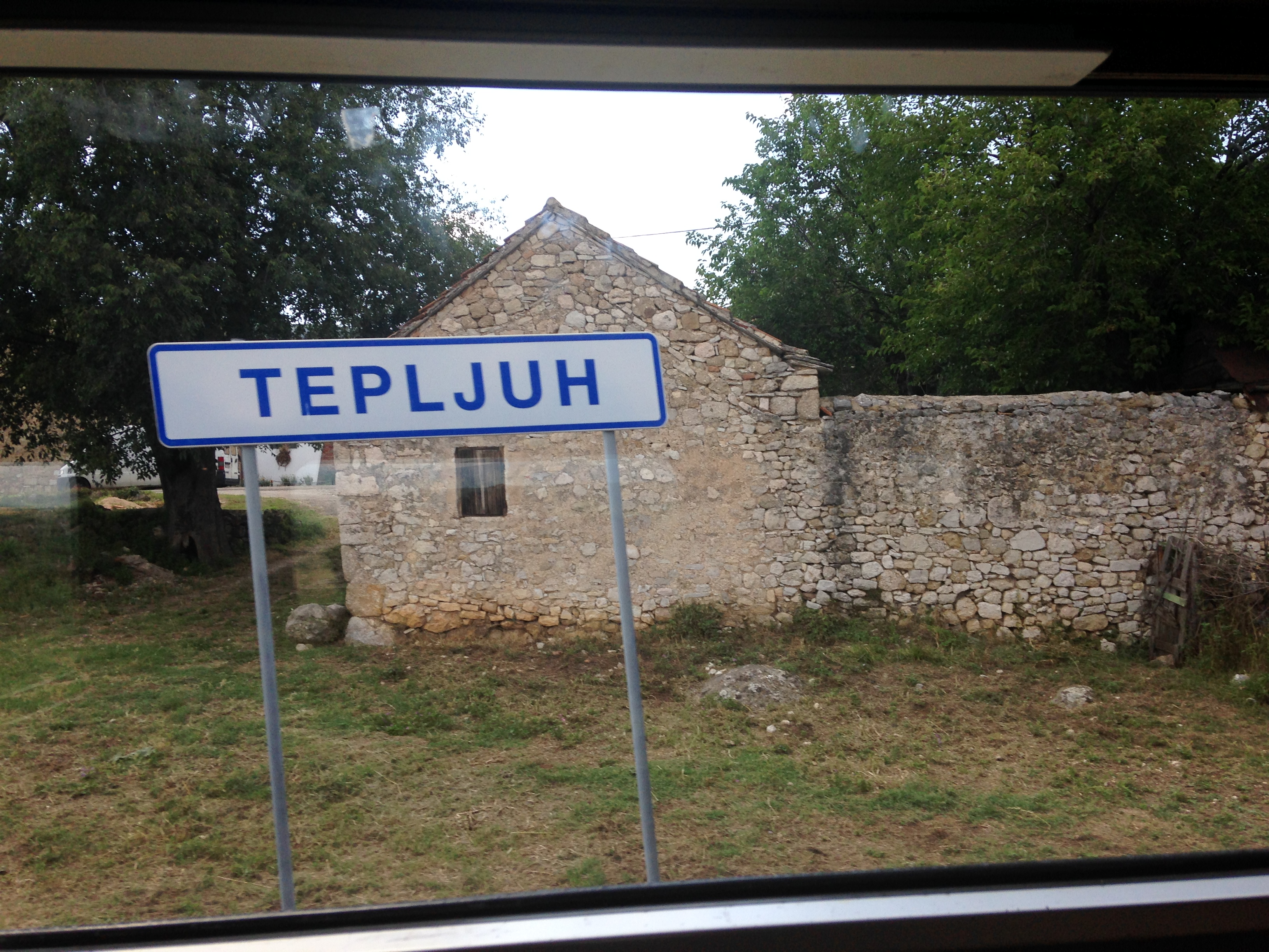 Station Tepljuh